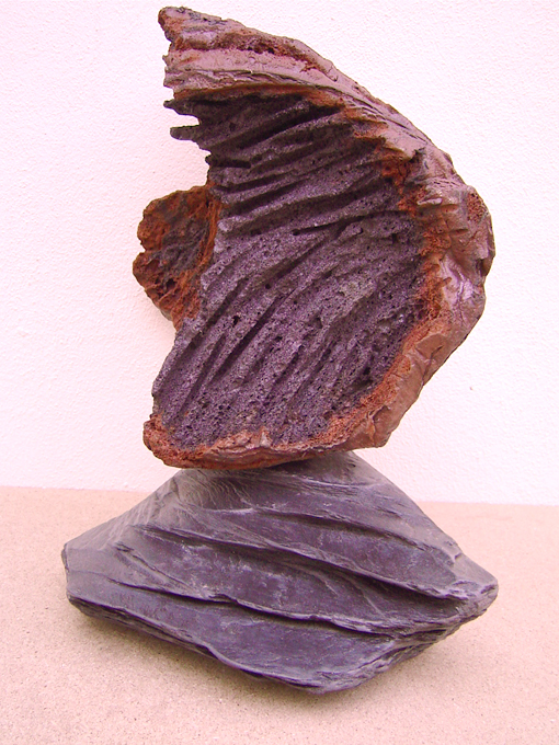 One of the many works of art of the plastic artist João Carqueijeiro